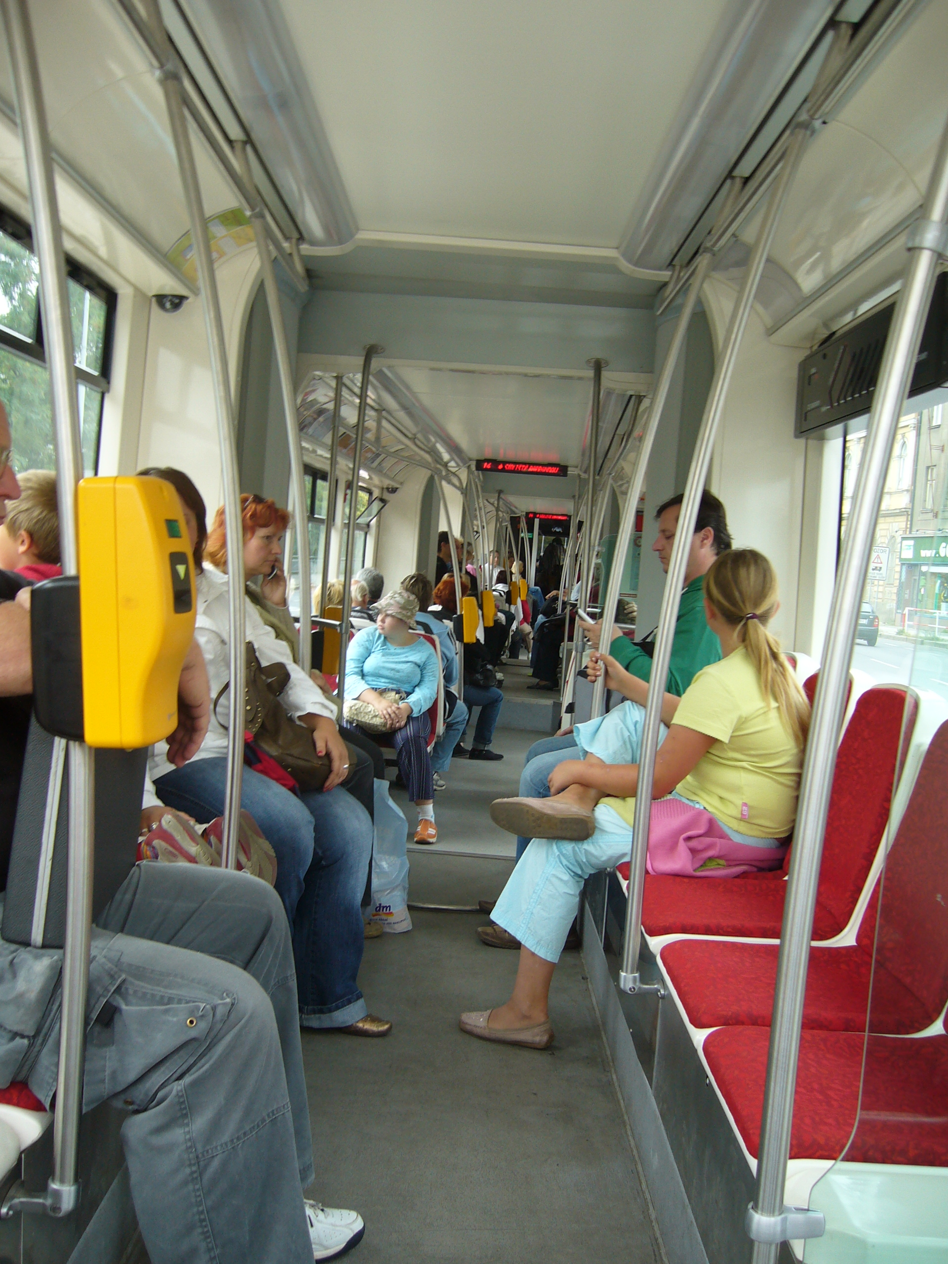 Interier of tram Škoda 14 T in Prague at line No 14.